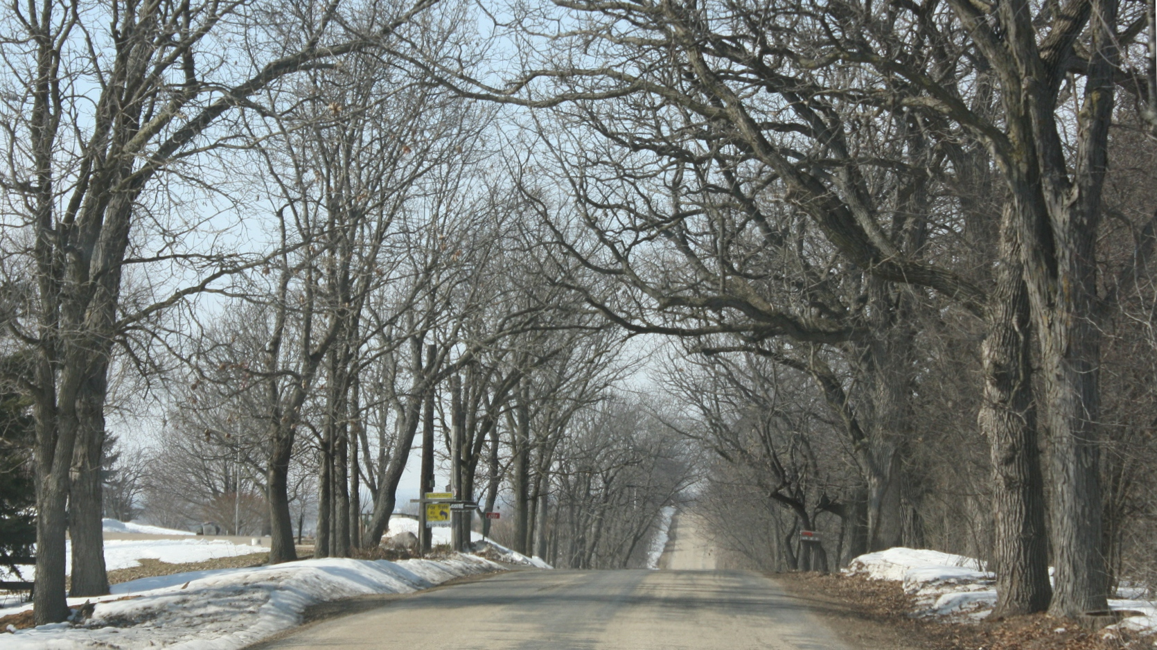 Looking Wisconsin Rustic Road 72.